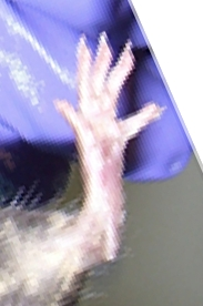 foot of mouse Mus musculus